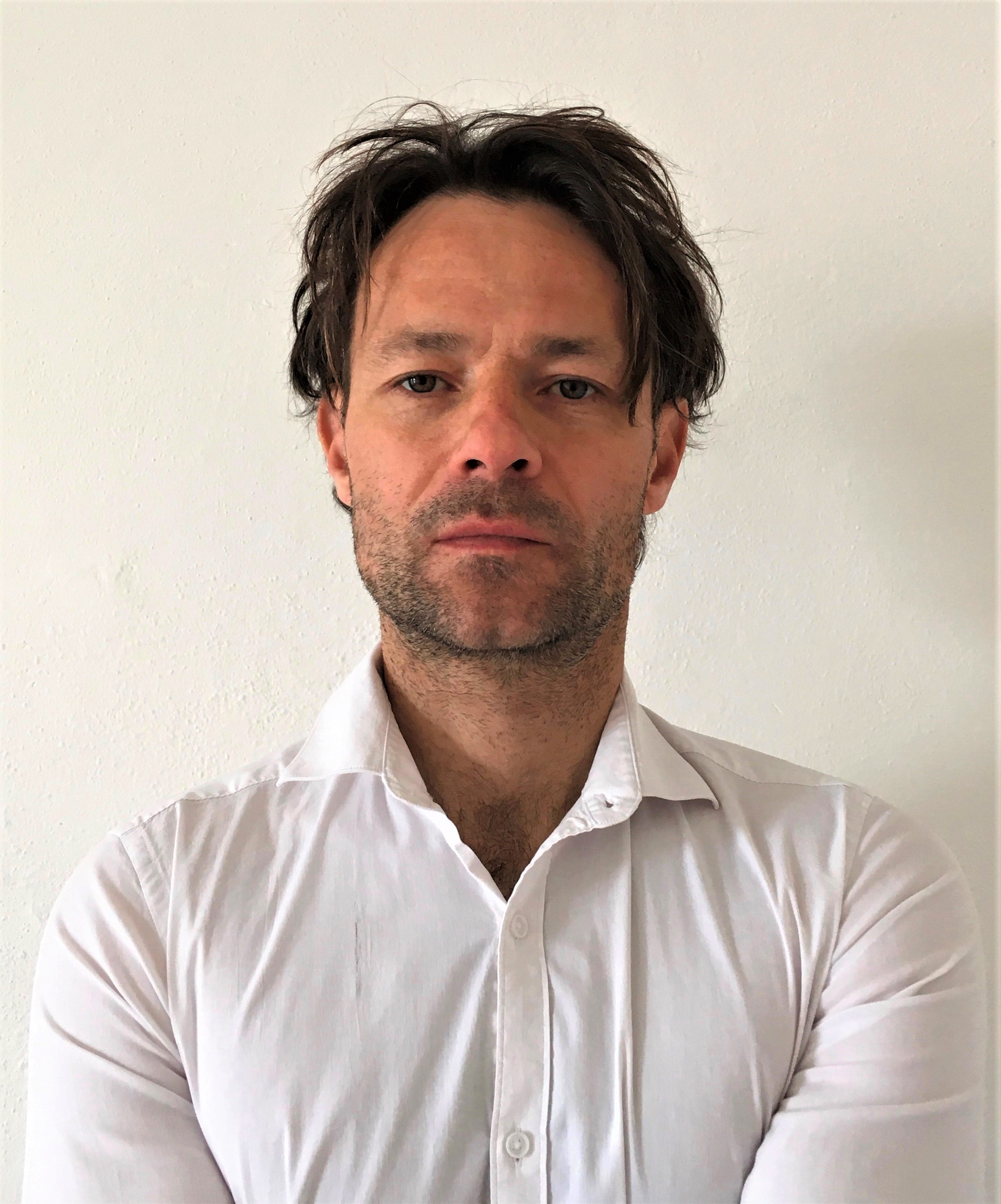 Miroslav Žáčok, Slovak sculptor